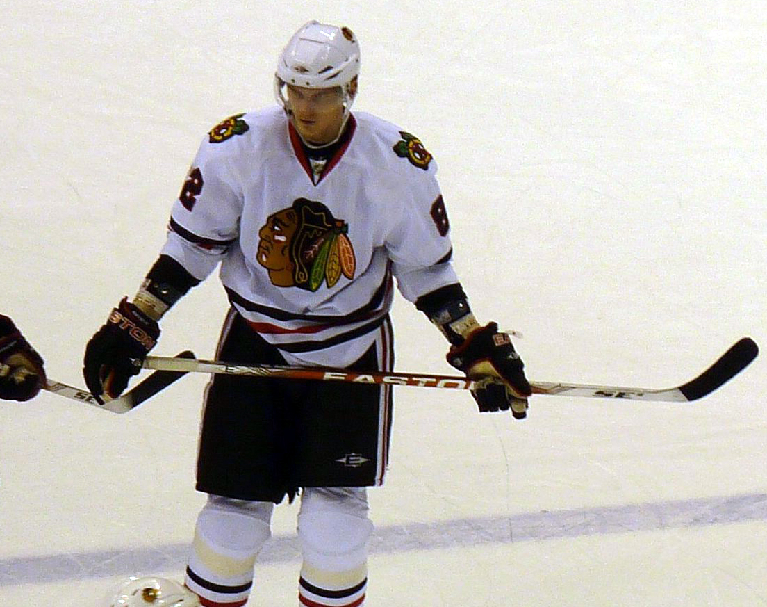 Chicago Blackhawks forward Tomas Kopecky during a game against the Vancouver Canucks at GM Place on November 22, 2009.